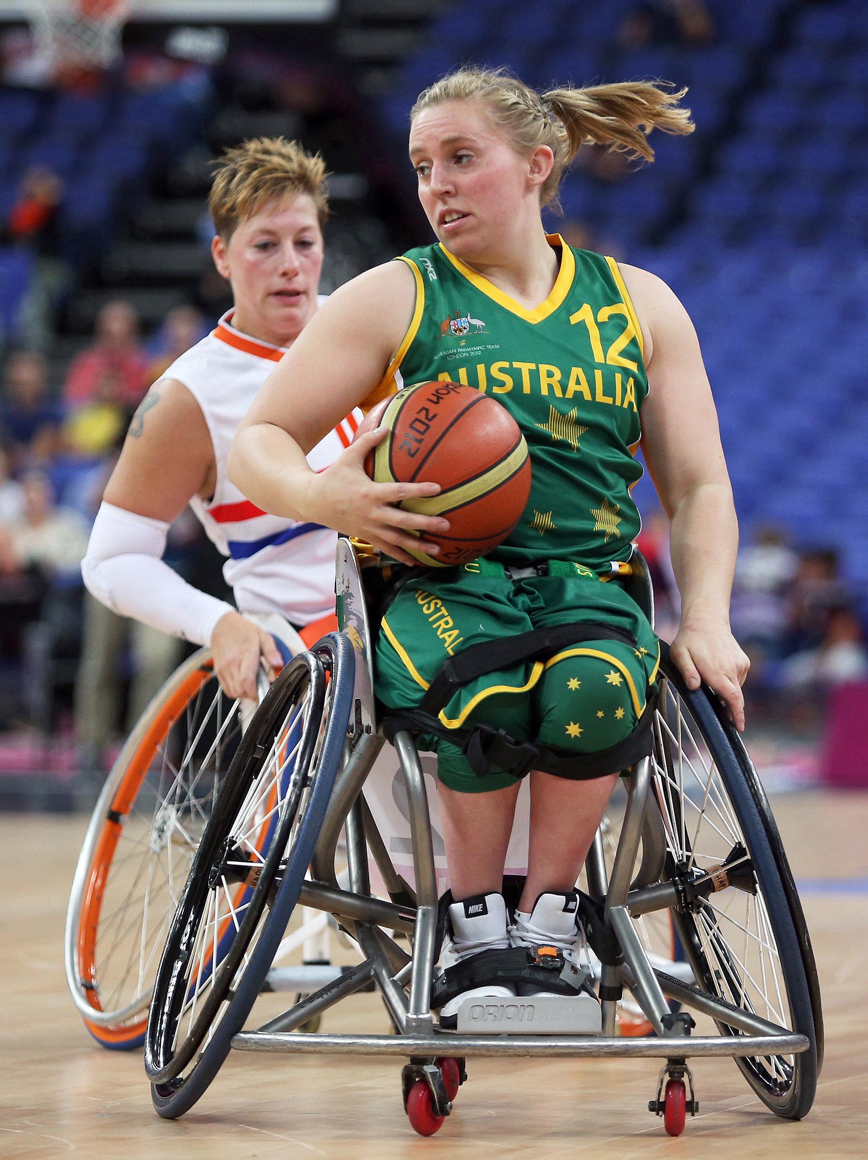 Photograph of Australian Paralympic team member Shelley Chaplin at the 2012 Summer Paralympic Games in London